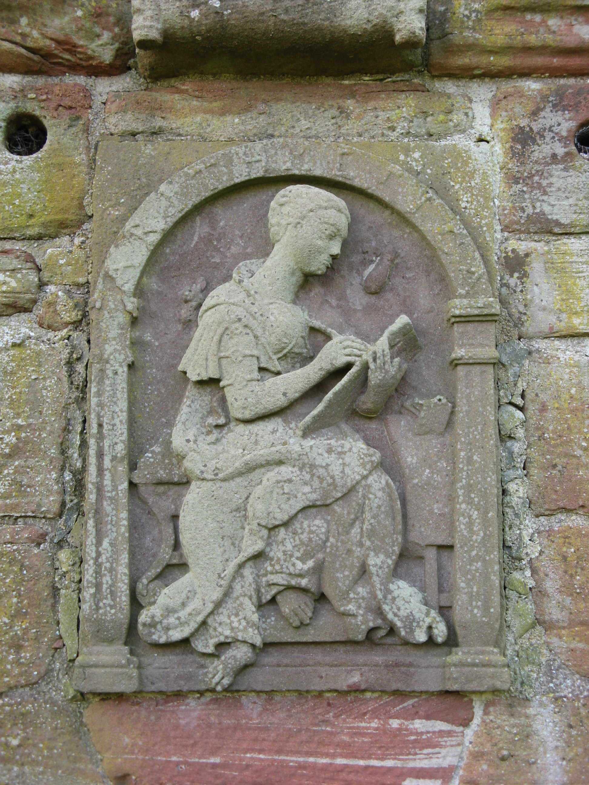 Edzell Castle, Angus, Scotland. One of the seven Liberal Arts carvings